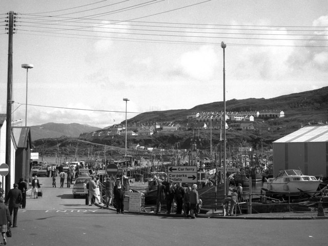 Mallaig: general view outside the station This picture taken just outside the station shows that Mallaig is a busy and lively small town, with lots of people about on this sunny afternoon.